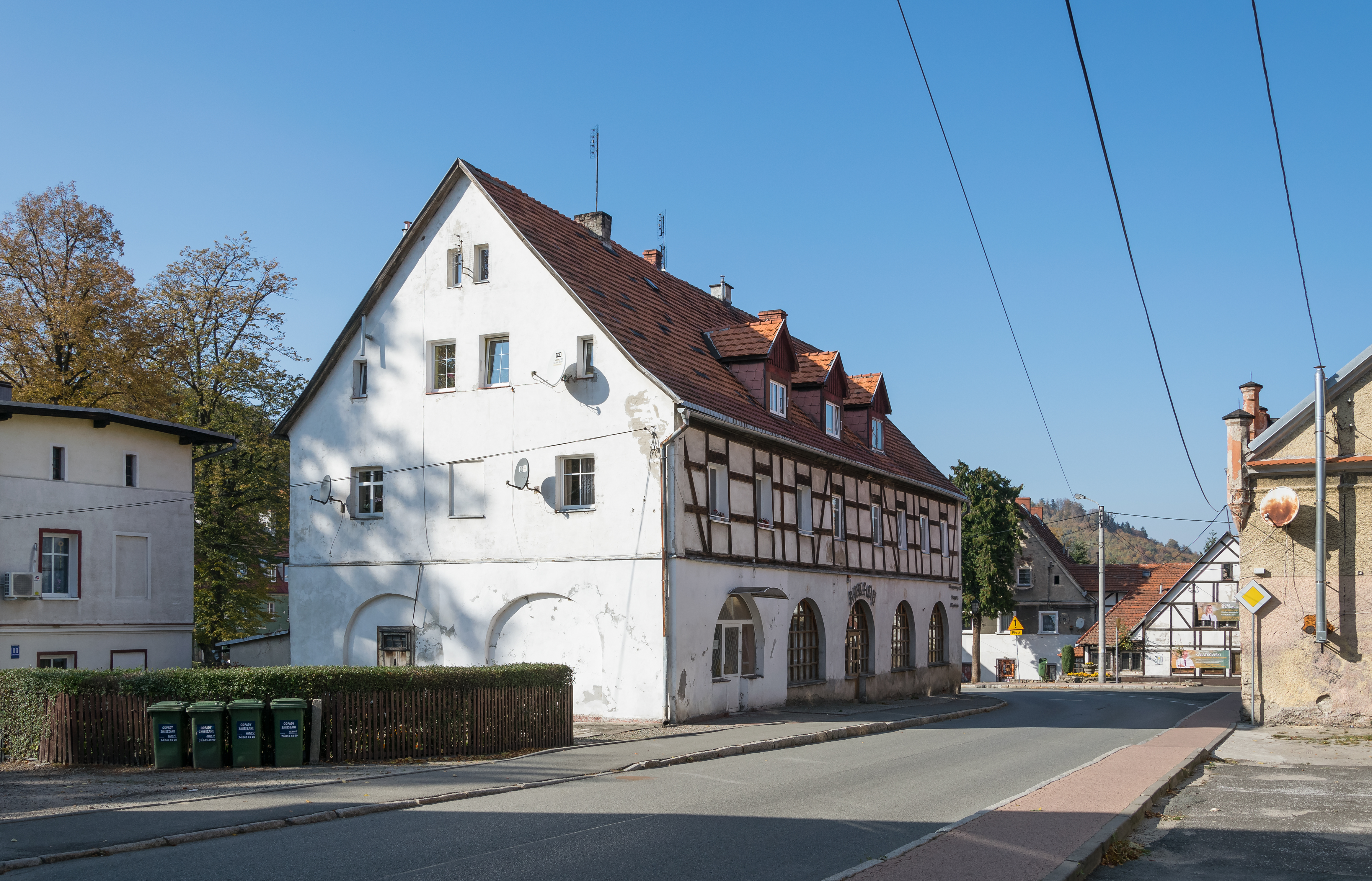 13 Wyszyńskiego Street in Walim Wikidata has entry Q30083194 with data related to this item.